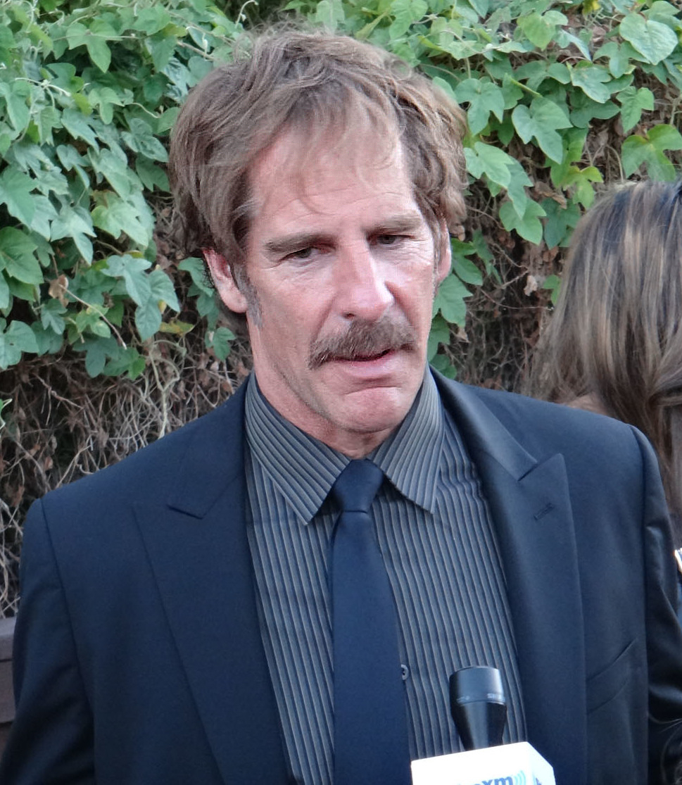 38th Annual Saturn Awards - Scott Bakula